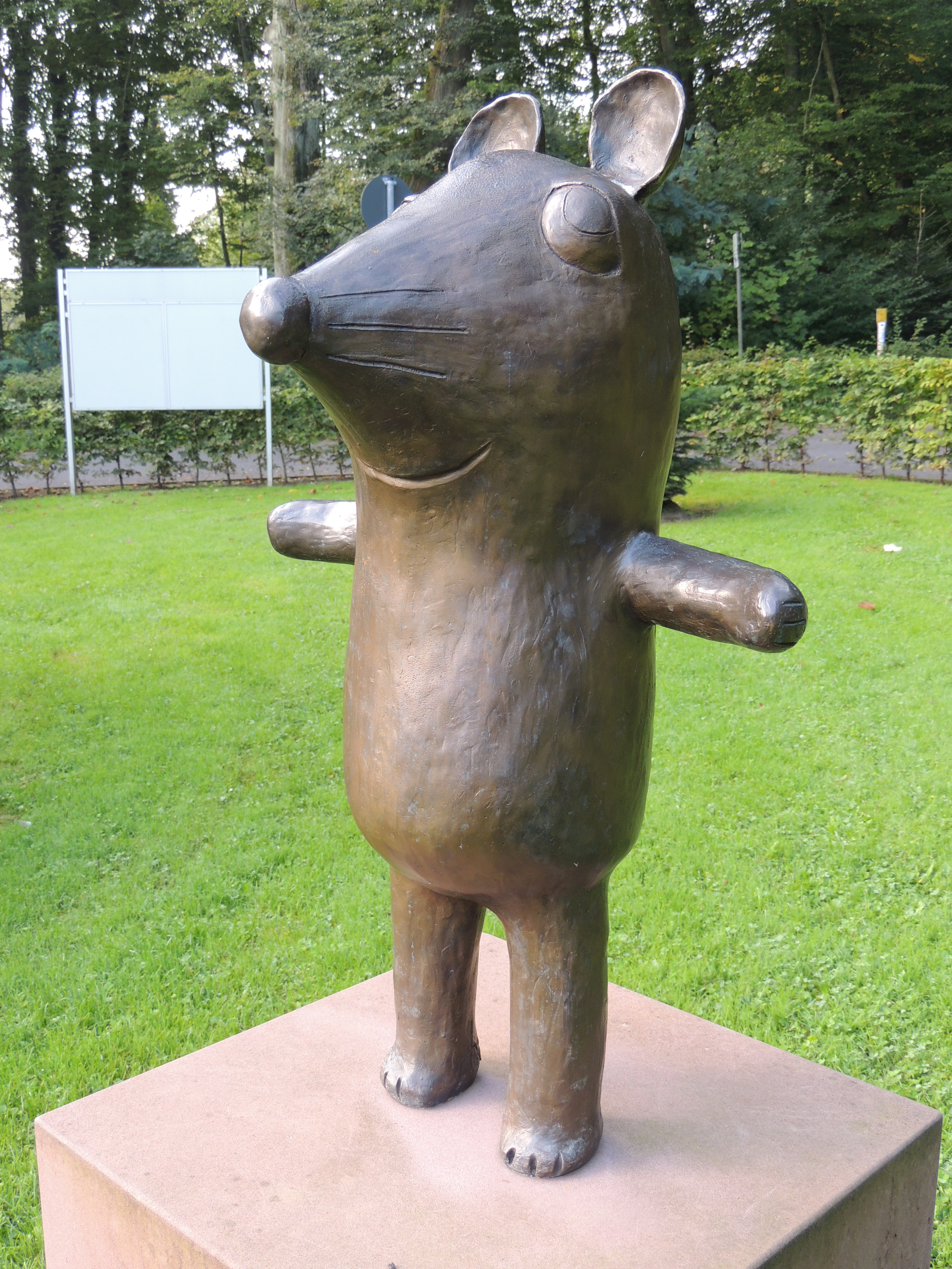 Statue of the mouse from the German TV education program for children Die Sendung mit der Maus from its creator Isolde Schmitt-Menzel in the sculpture garden of the in Bad Homburg vor der Höhe.